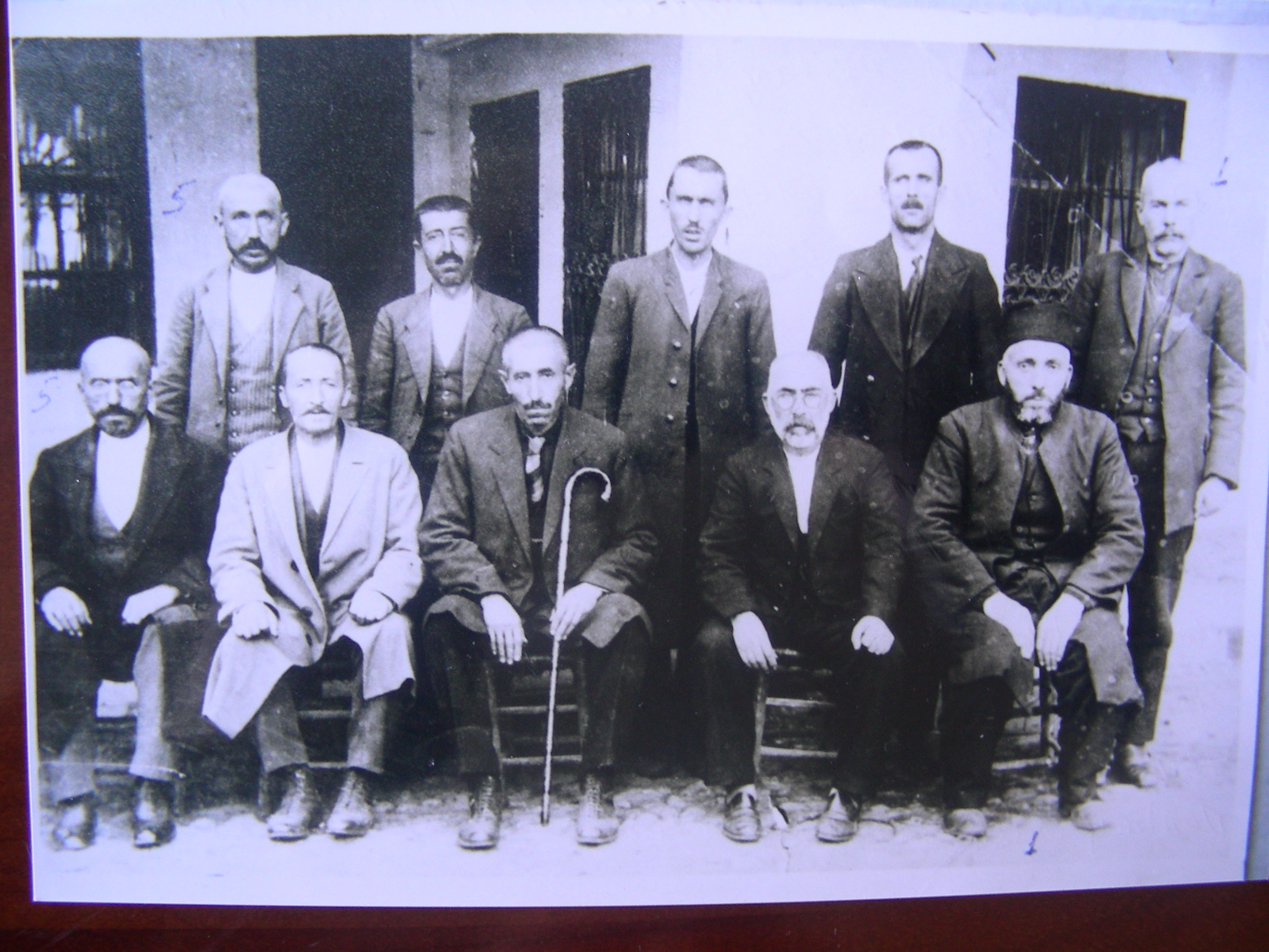 Founders of Uşak Sugar Factory